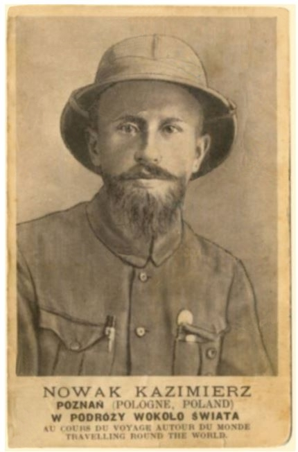 Kazimierz Nowak (1897-1937) - a Polish traveller, correspondent and photographer. Probably the first man in the world who crossed Africa alone from the North to the South and from the South to the North (from 1931 to 1936; on foot and by bicycle).